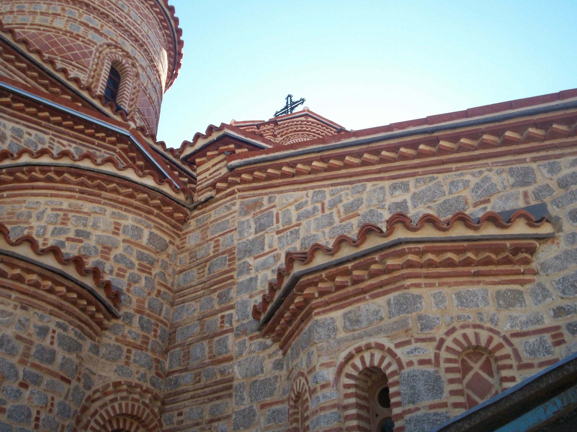 The detailed architectural style of Saint Clements monastery in Ohrid